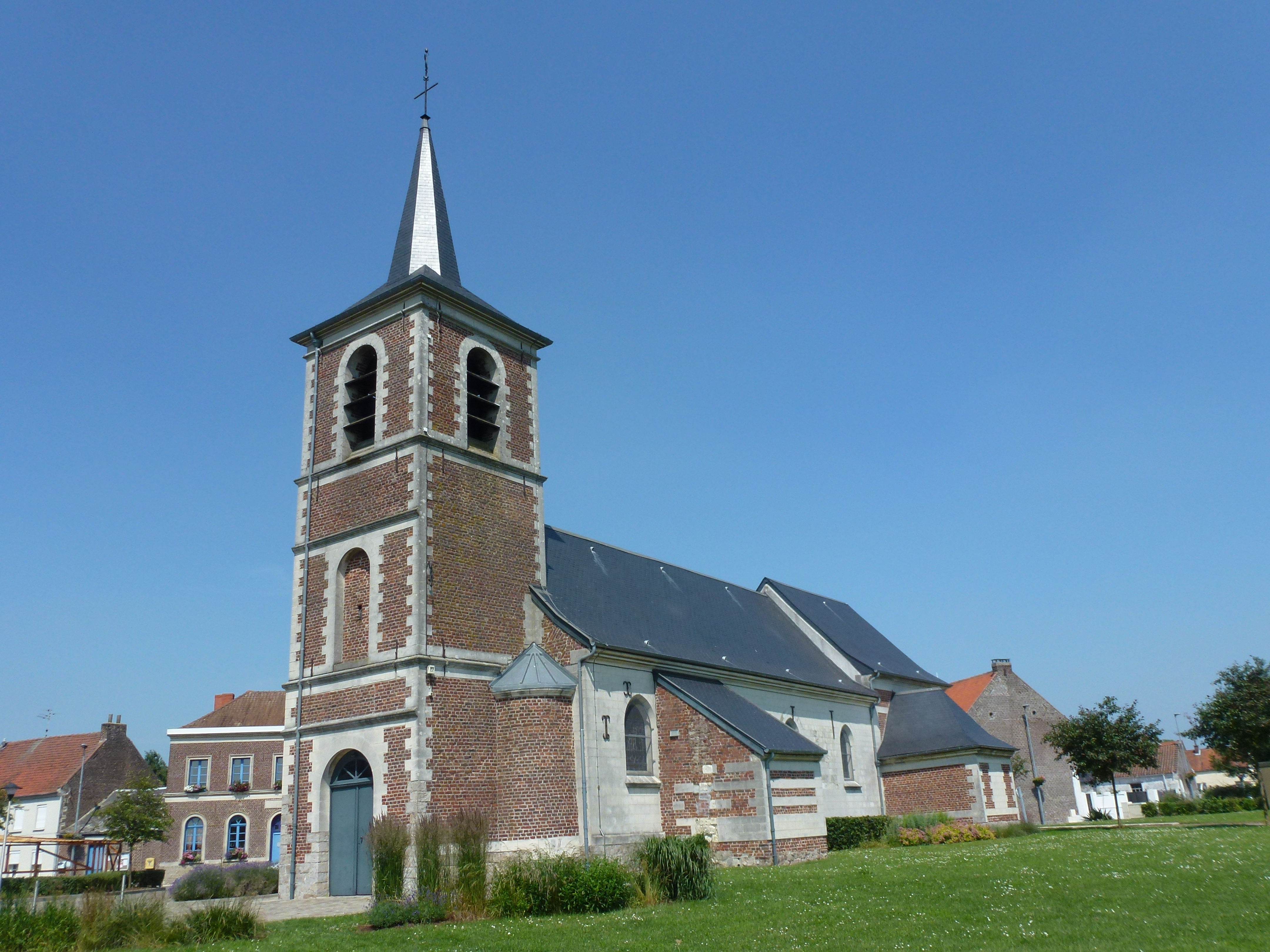 Bellaing (Nord, Fr) église Depicted place: Q38494937